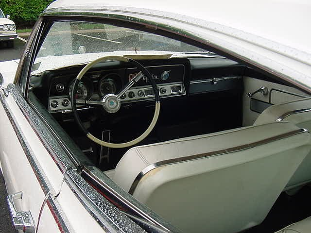 1965 Rambler Marlin (by American Motors Corporation - AMC) two-door hardtop fastback. Interior view from outside illustrating the no-"B-pillar" body design. Picture taken at the AMCRC car show that was held in Somerset, New Jersey held in Somerset, New Jersey, during August 8 and 9, 2003. Uploaded on 2008-09-19.